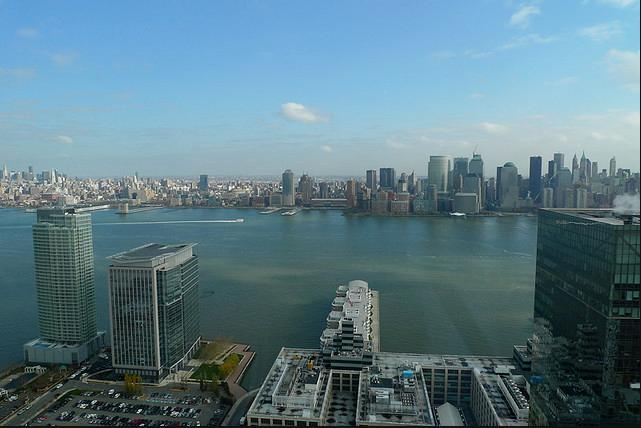 Trump Plaza Penthouse View Jersey City